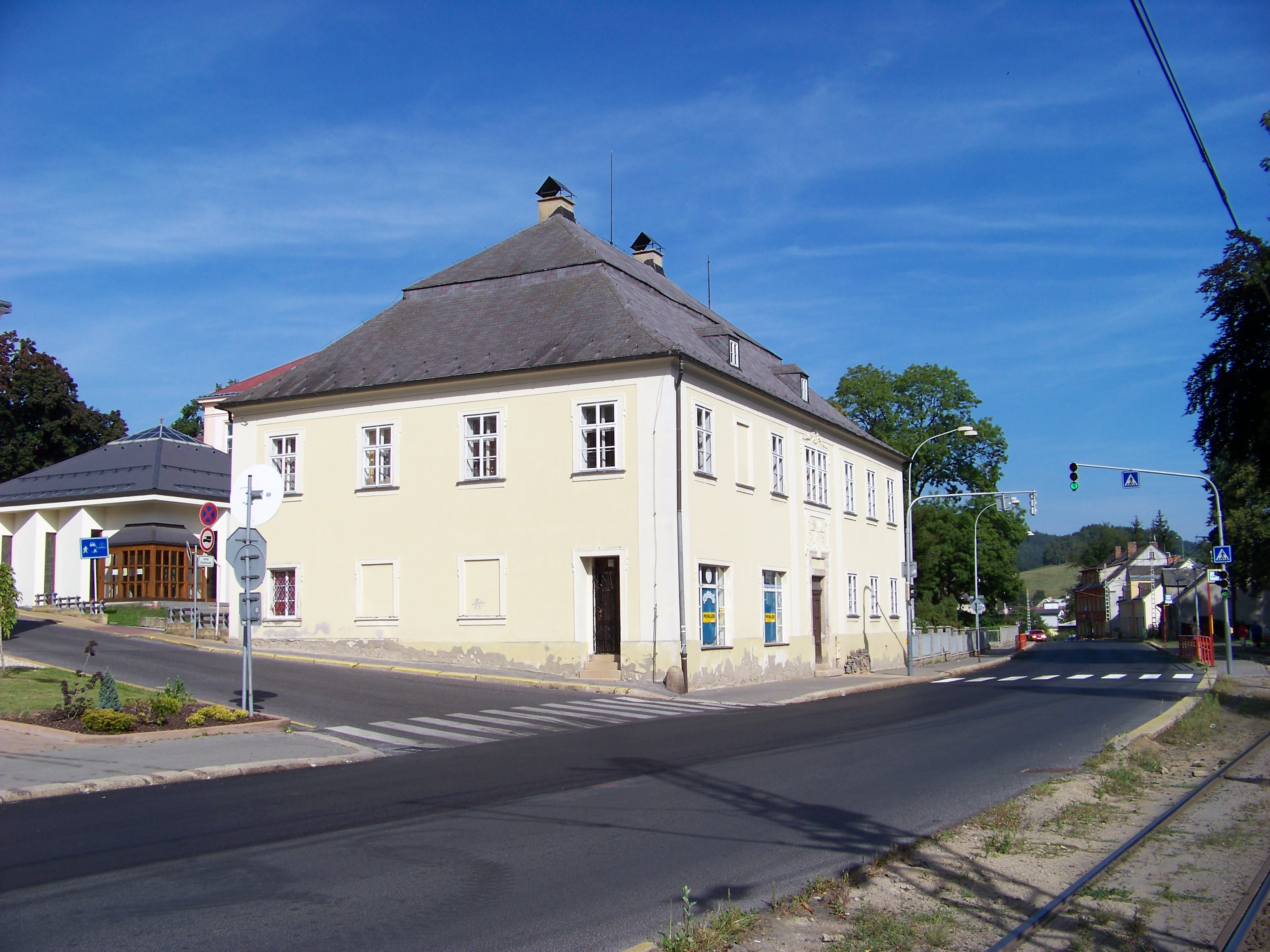 Liberec XXX-Vratislavice nad Nisou, Liberec Region, the Czech Republic. Tanvaldská street, a rectory and Resurrection Chapel.